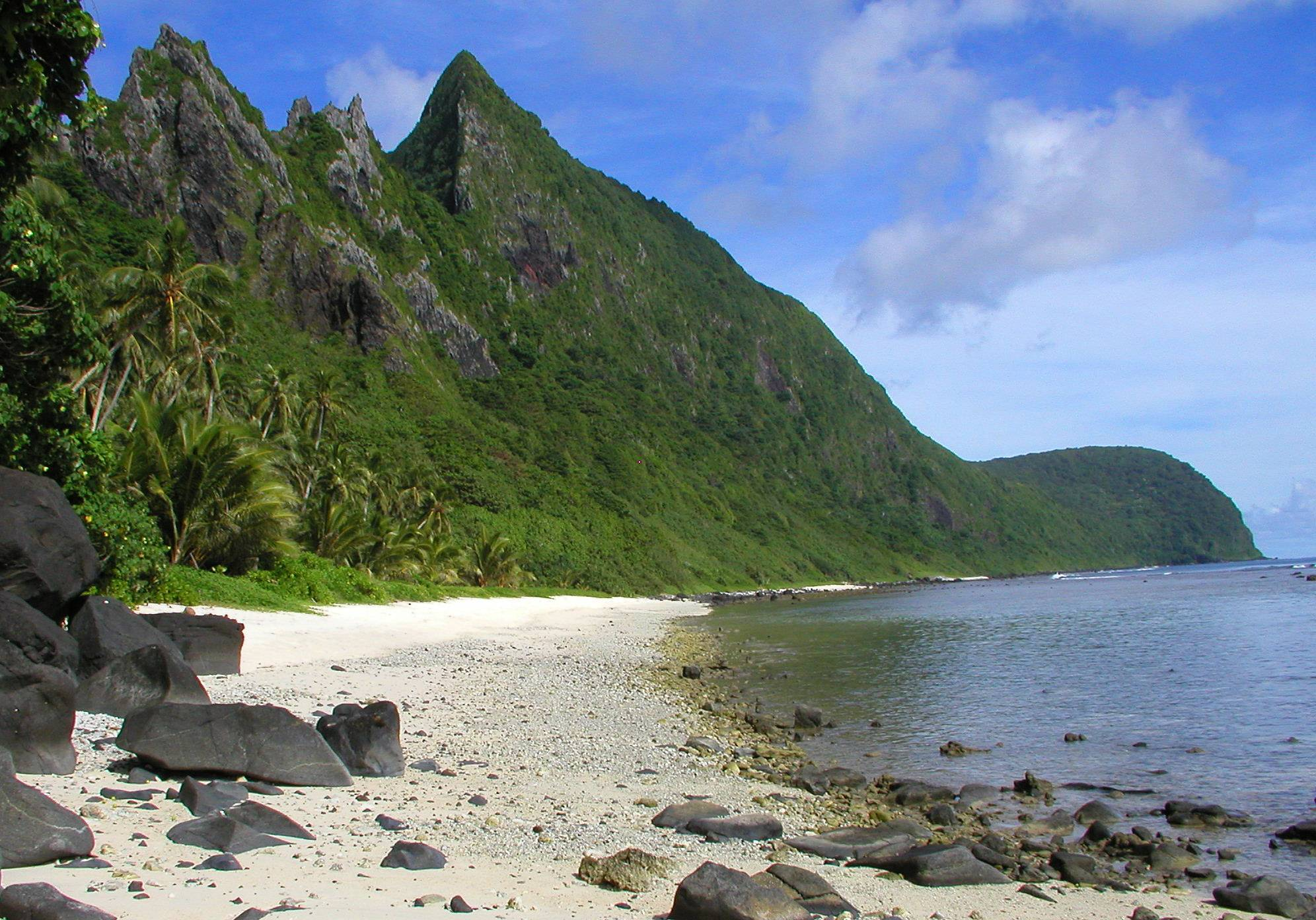 Beach at Ofu, American Samoa. Original Description: Photo of beach at Ofu.